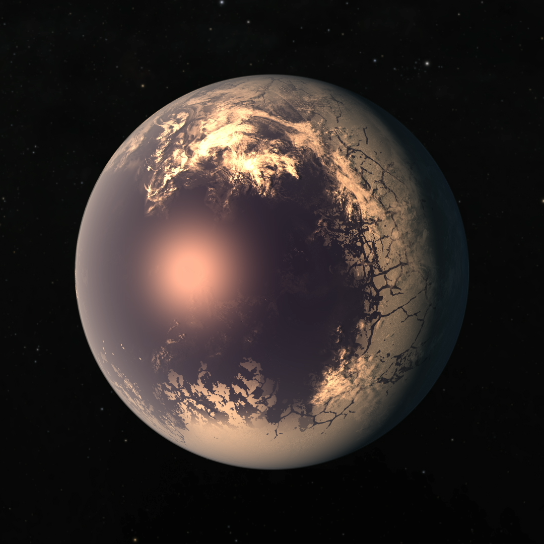 Artist's impression of the exoplanet TRAPPIST-1f, located in the Aquarius system of TRAPPIST-1. Originally created for NASA as part of their announcement of discoveries in the TRAPPIST-1 system on 22 February 2017. According to NASA, both TRAPPIST-1e and TRAPPIST-1f are depicted as "covered in water, but with progressively larger ice caps on the night side." Screenshotted and cropped from File:PIA21468 - TRAPPIST-1 Planets - Flyaround Animation.ogg.